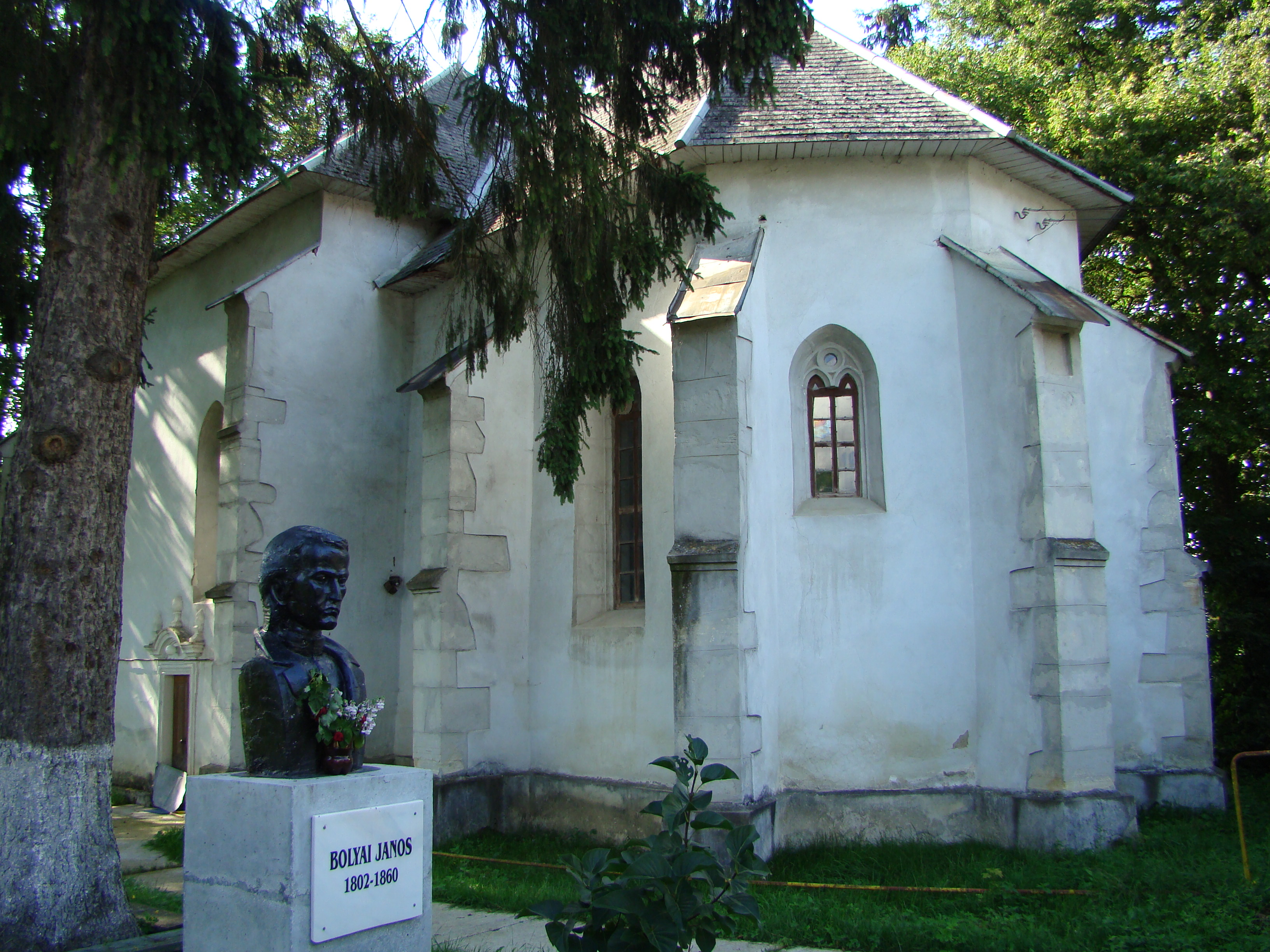 Reformed church in Nușeni (Apanagyfalu), Bistrița-Năsăud county, with the bust of János Bolyai